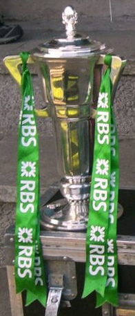 The Six Nations championship trophy awarded to Ireland at the end of 2009 Six Nations